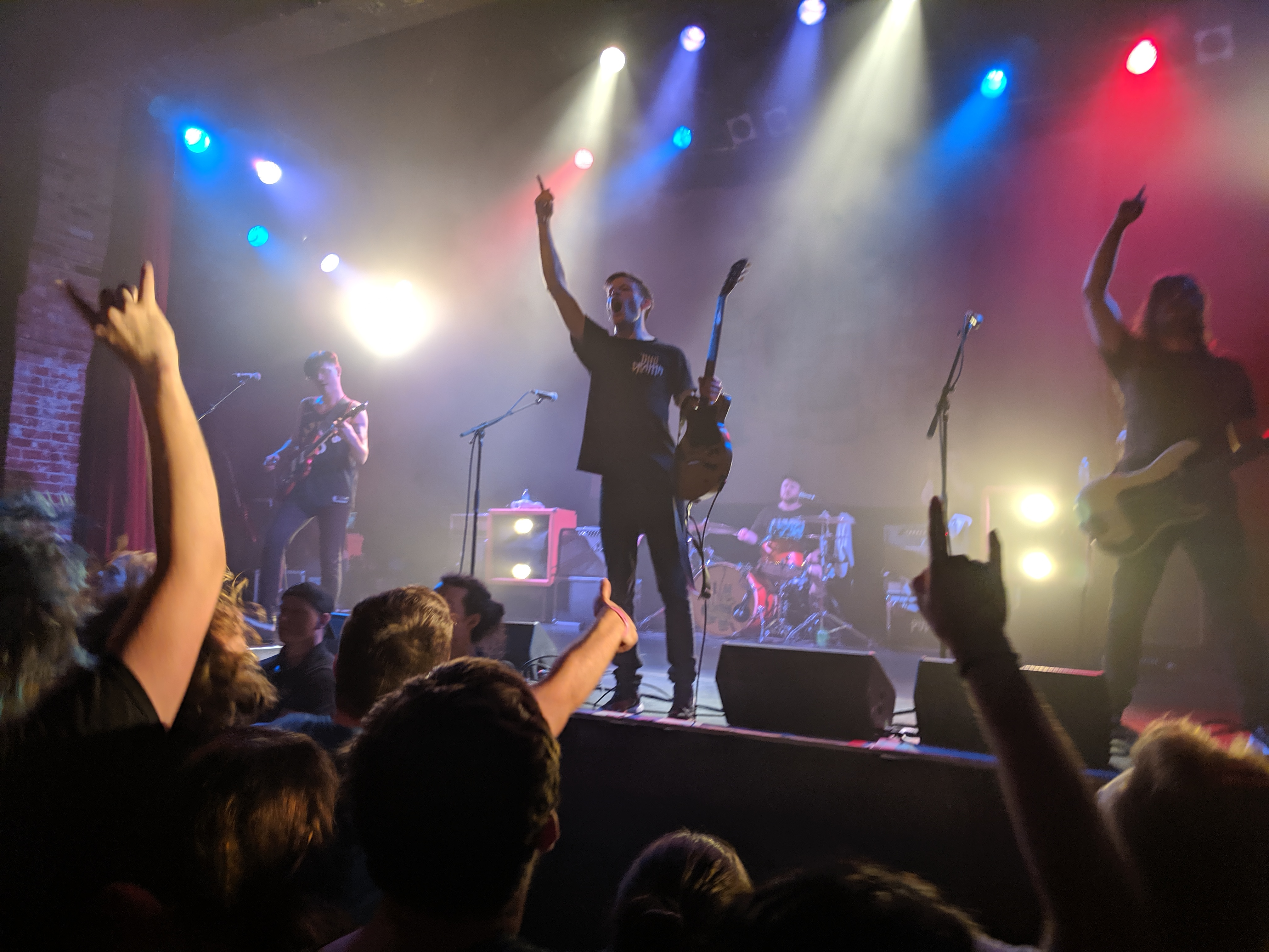 Taken during a concert at Bogart's on May 22, 2019. Smoke Parade, Casper Skulls, and Ratboys were the opening acts and PUP was the headlining act.